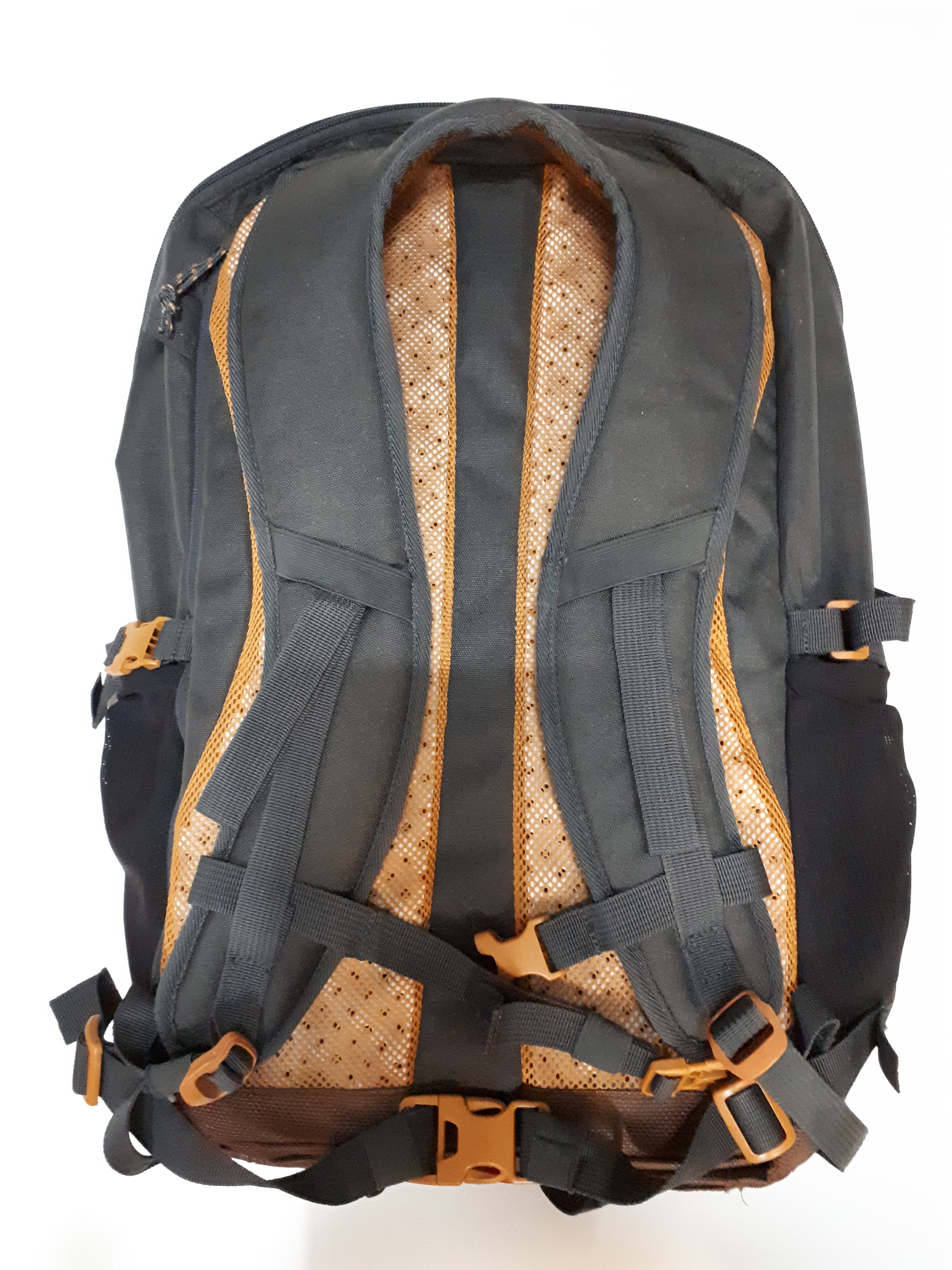 A Quechua backpack. Size: 52 x 35 x 20 cm - Price: 30 Euro - Warranty: 10 years